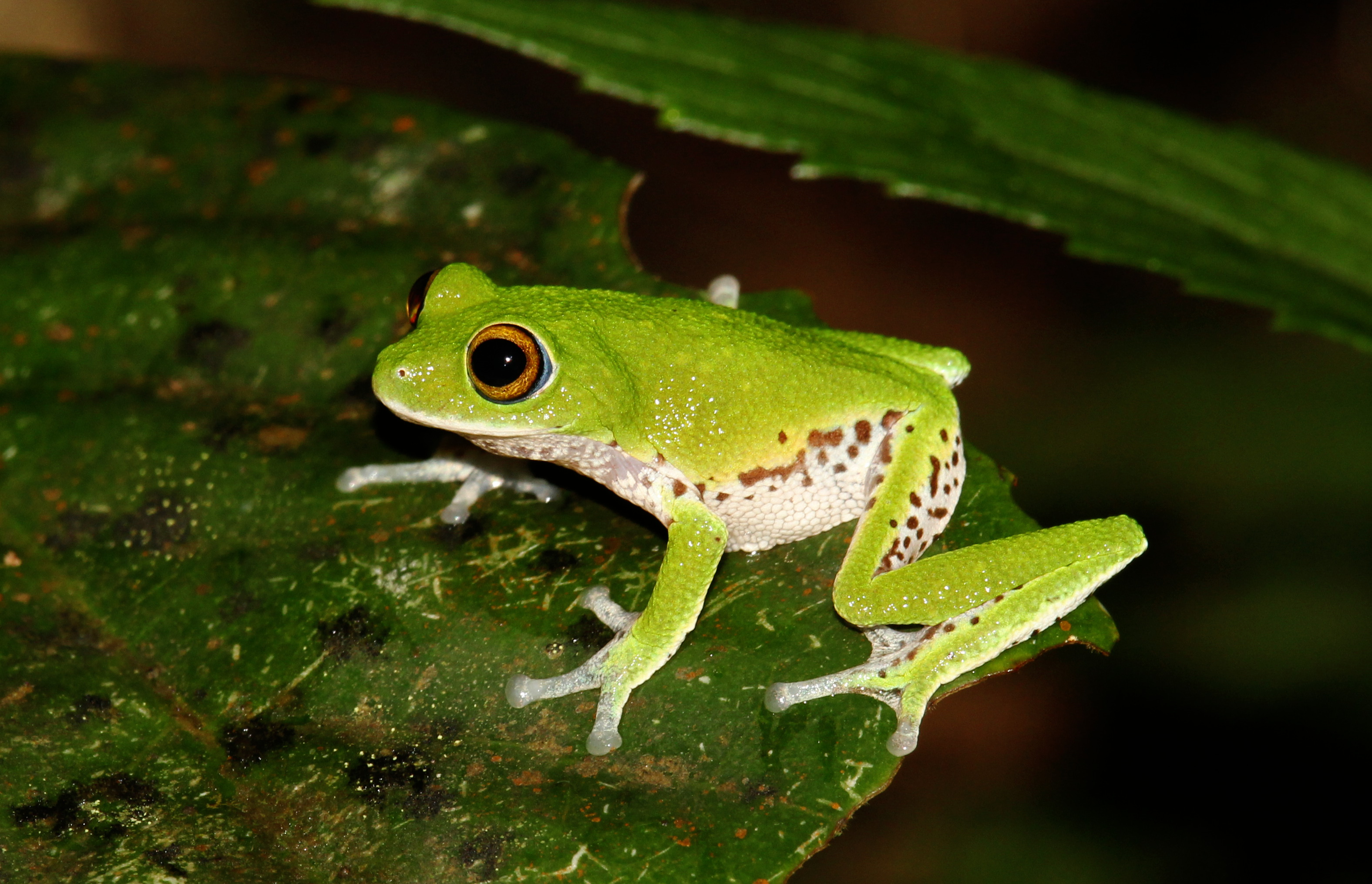 Pseudophilautus mooreorum is a endemic species of frog found in Sri Lanka